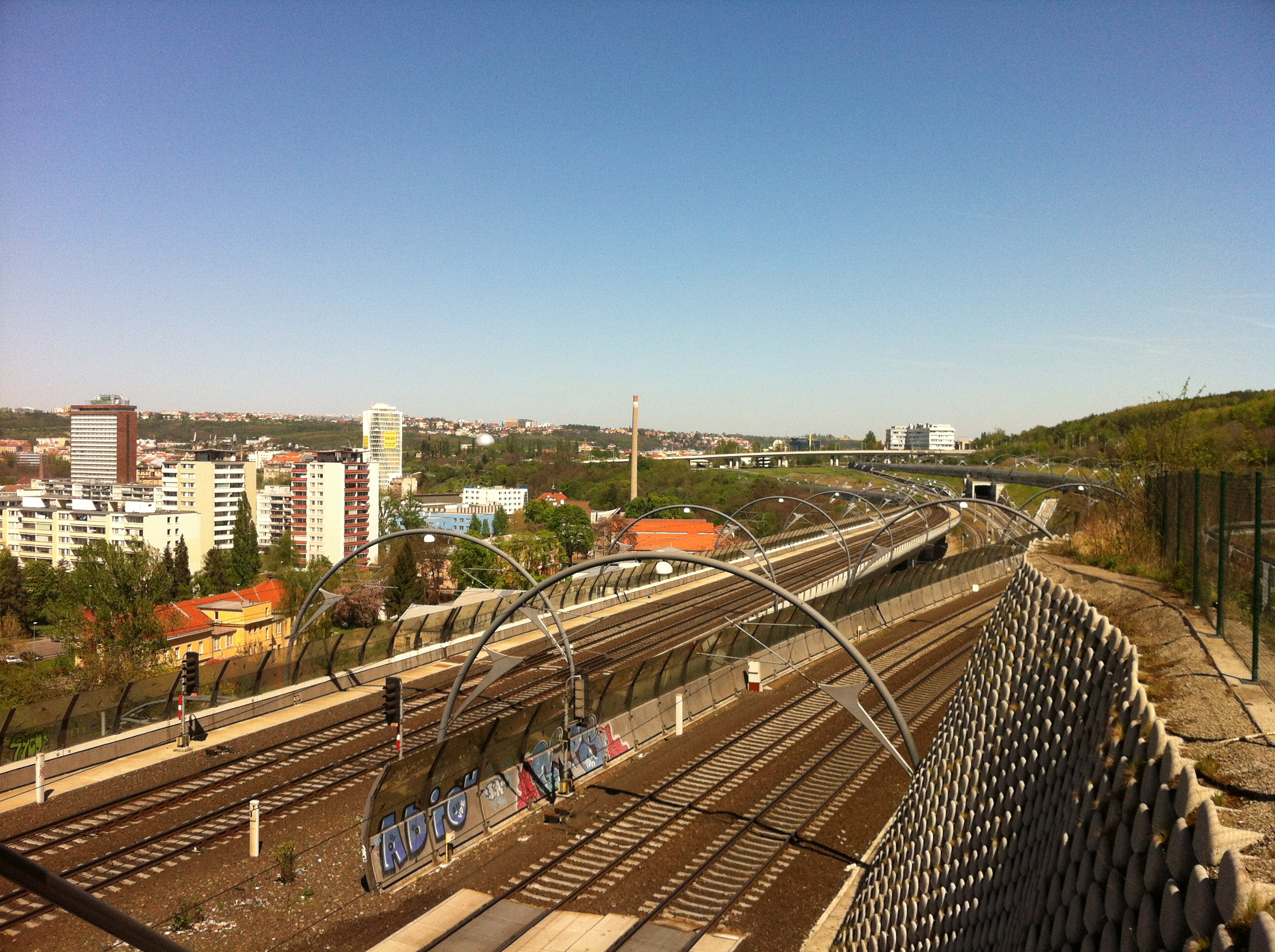 Prague - View of Nové Spojení and Krejcárek from the cycle path underneath Vítkov hill